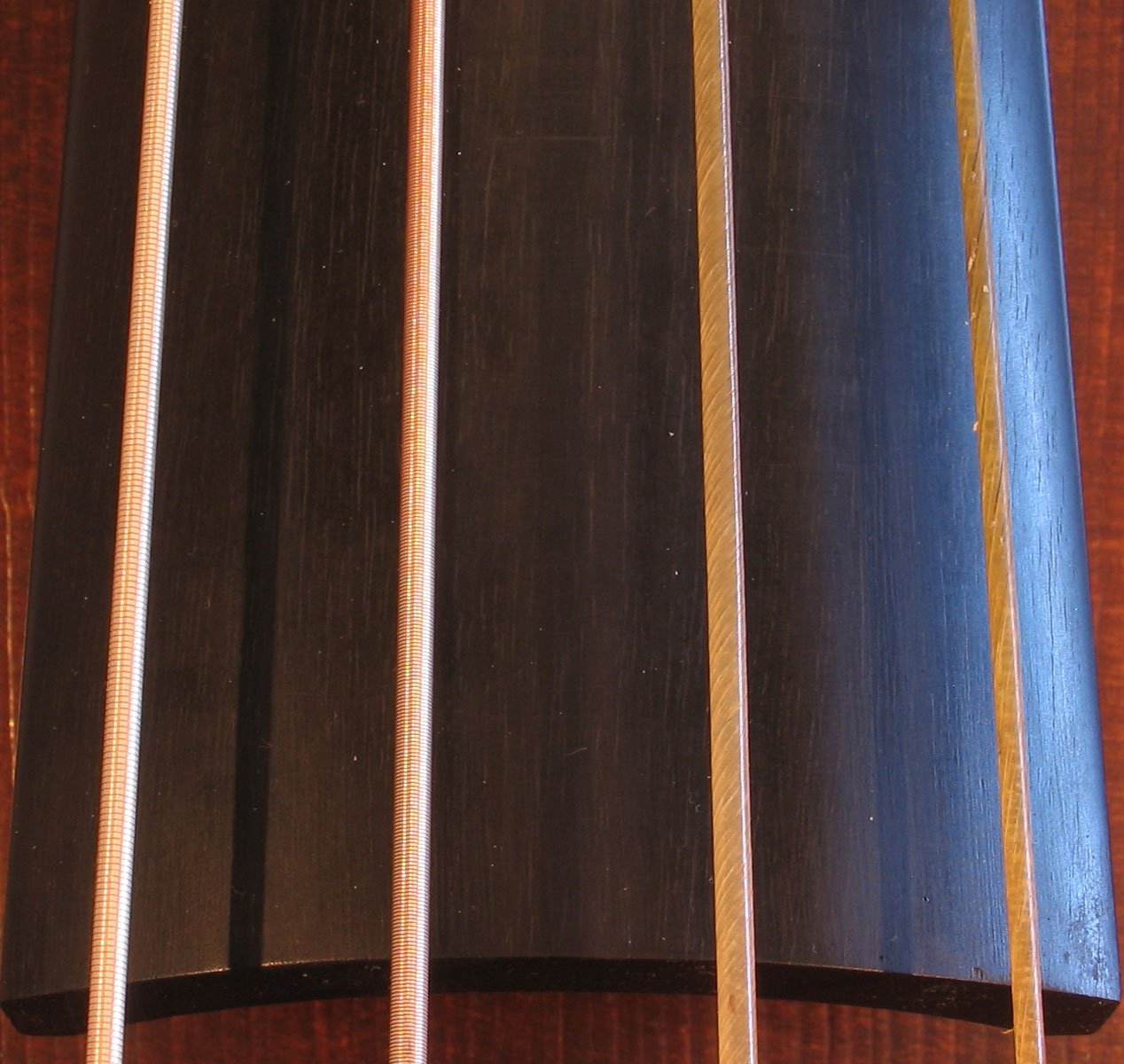 Double bass gut strings. The high strings (G and D) are plain gut, and the low strings (A and E) are silver-wrapped gut strings.